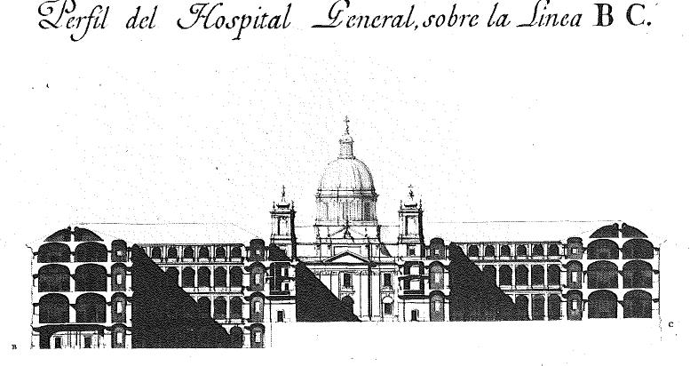 Cross section drawn by Francisco Sabatini for the General Hospital of Madrid